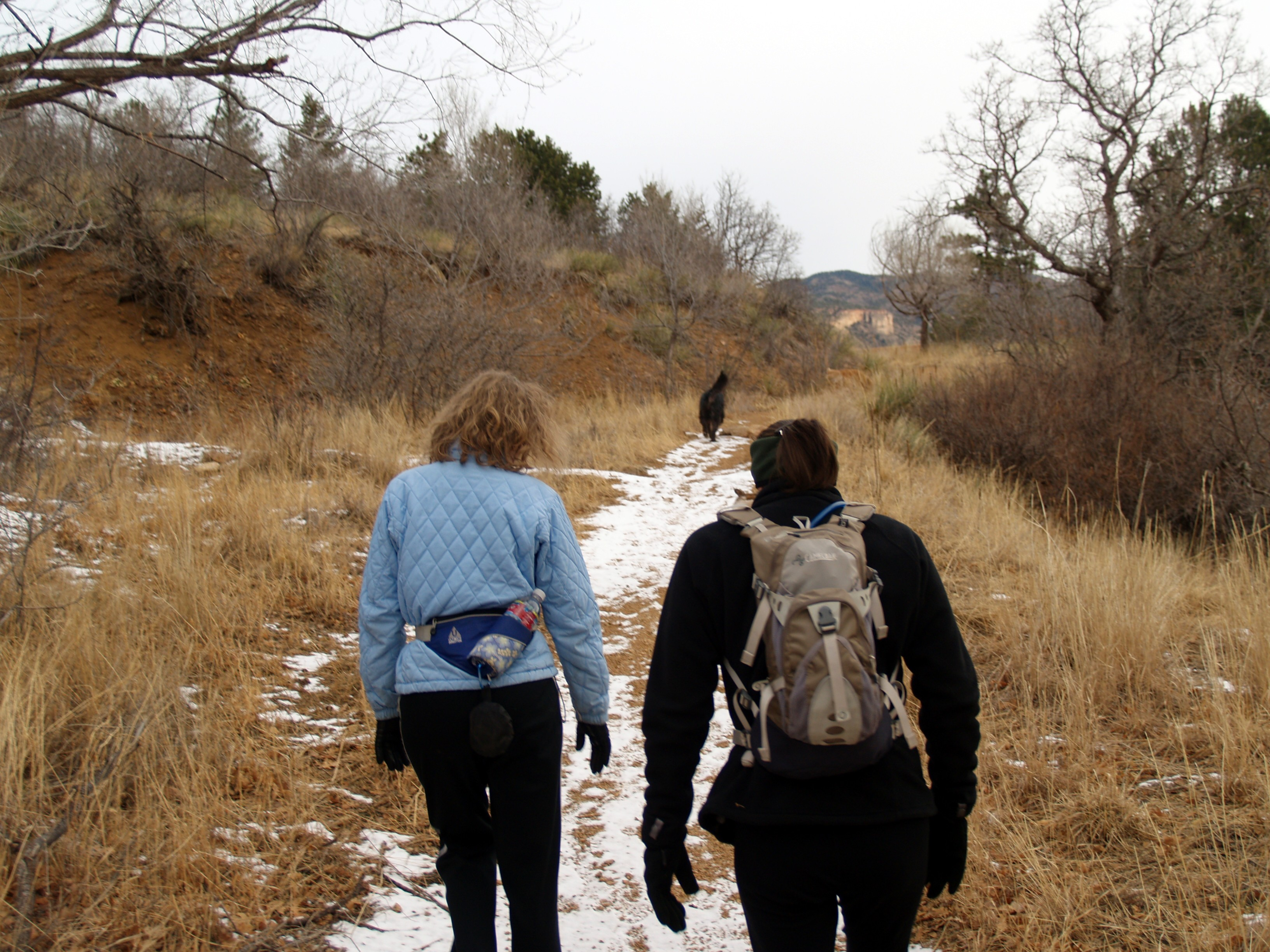 Two people in Manitou Springs, Colorado on a mountain trail dog hiking.